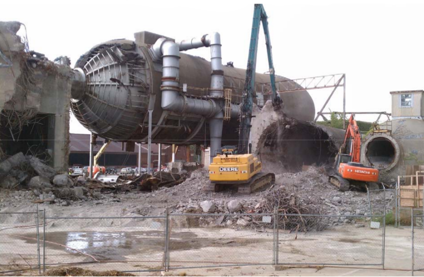 Destruction of Building 641, NASA Langley. This building housed the Eight-Foot High Speed Wind Tunnel, a National Historic Landmark.